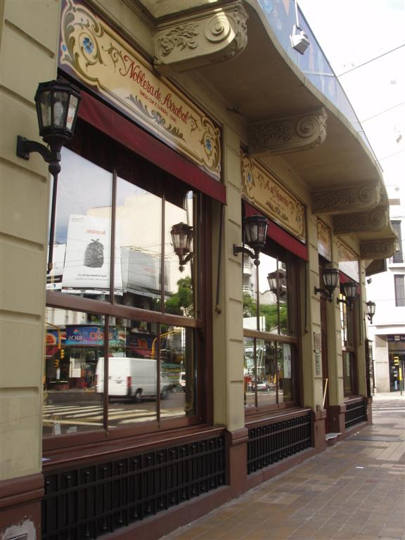 Picture of the famous Esquina Homero Manzi corner in the Boedo neighbourhood, Buenos Aires, Argentina